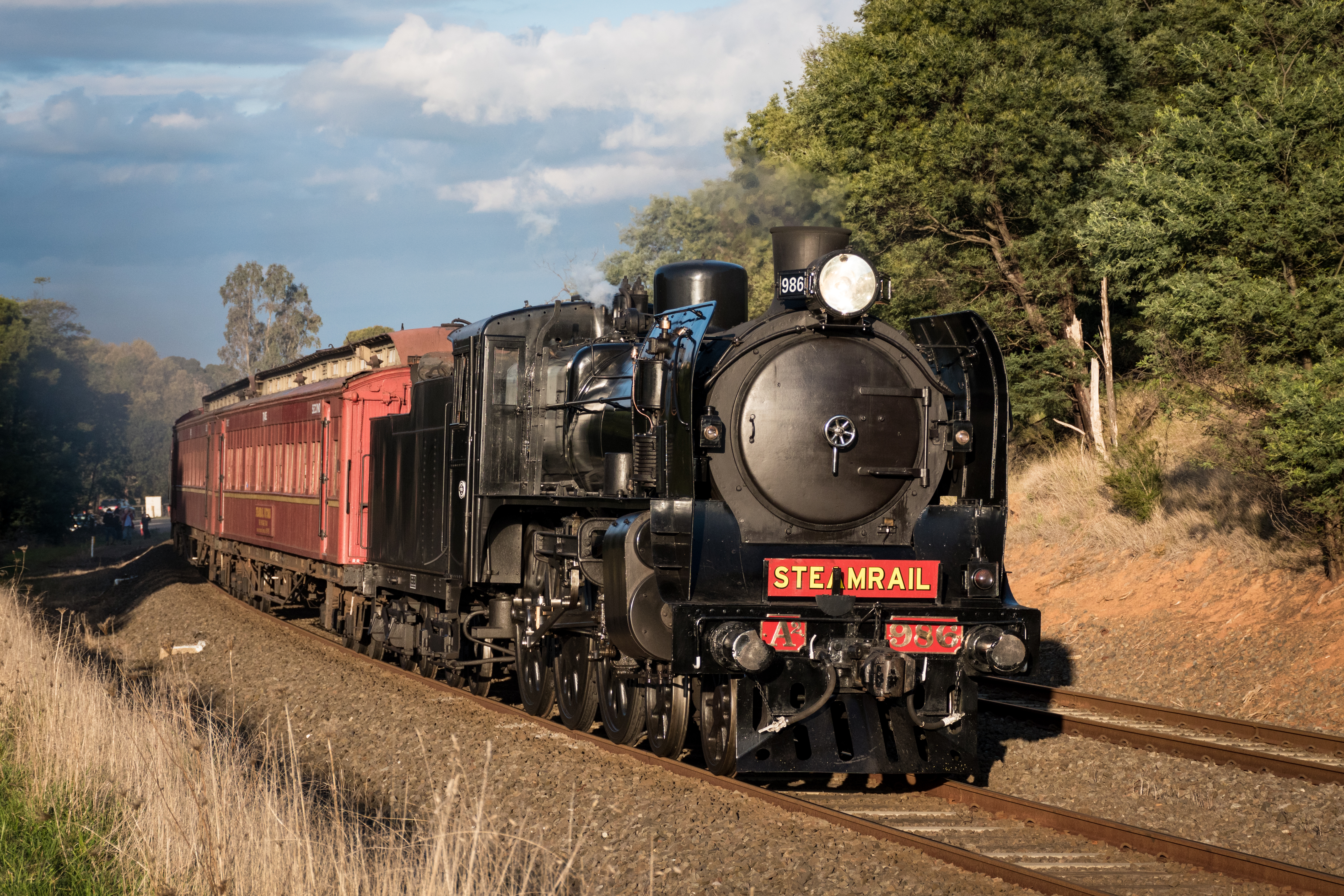 Ex-Victorian Railways locomotive A2 986 on its official re-launch tour